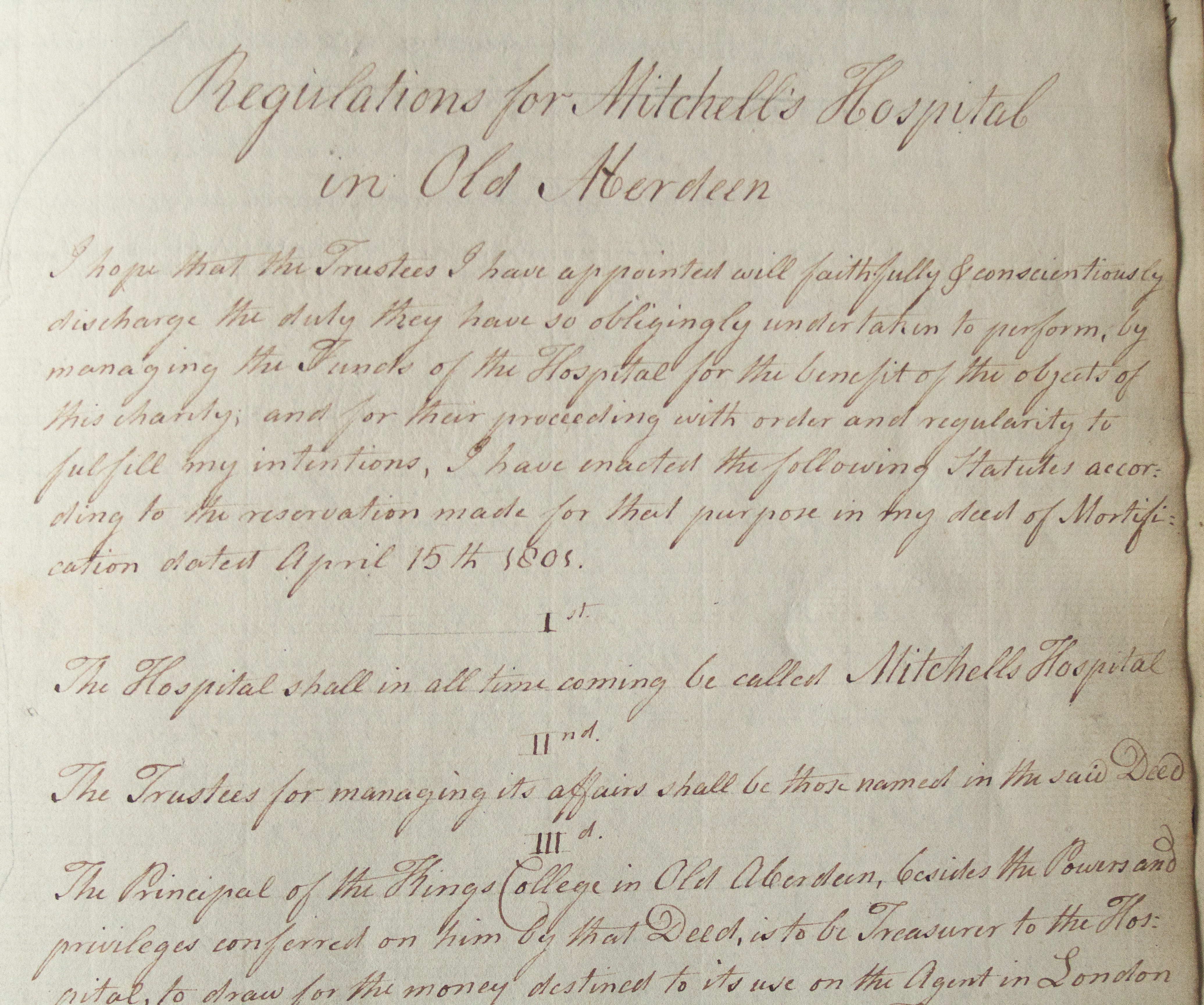 Initial Rules and Regulations of Mitchell's Hospital - 1801